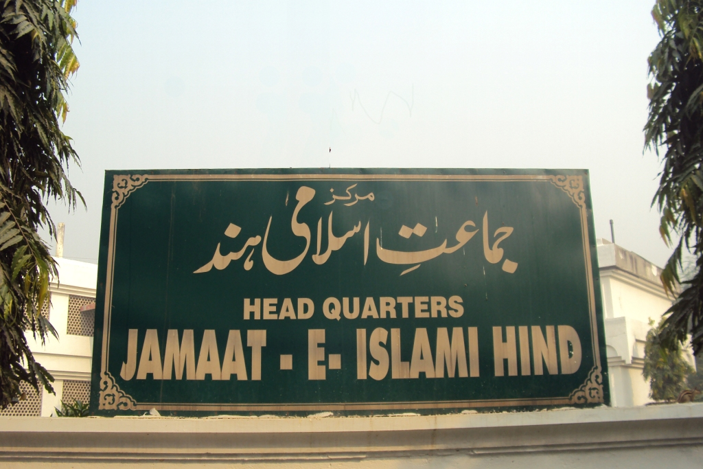 Jamaat e Islami Hind Head Quarters In Okhla, New Delhi